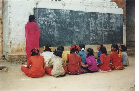 Female education in India.